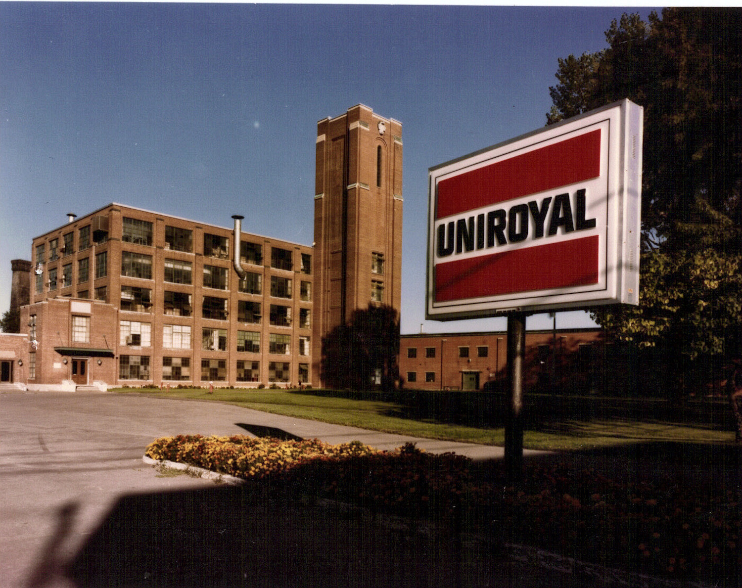 Scan of a fine 8 x 10 print of UNIROYAL plant in Saint-Jerome, Quebec, Canada. (took with a 4x5 Cambo camera in 1975. FILM: Kodack Vericolor 100 ASA)